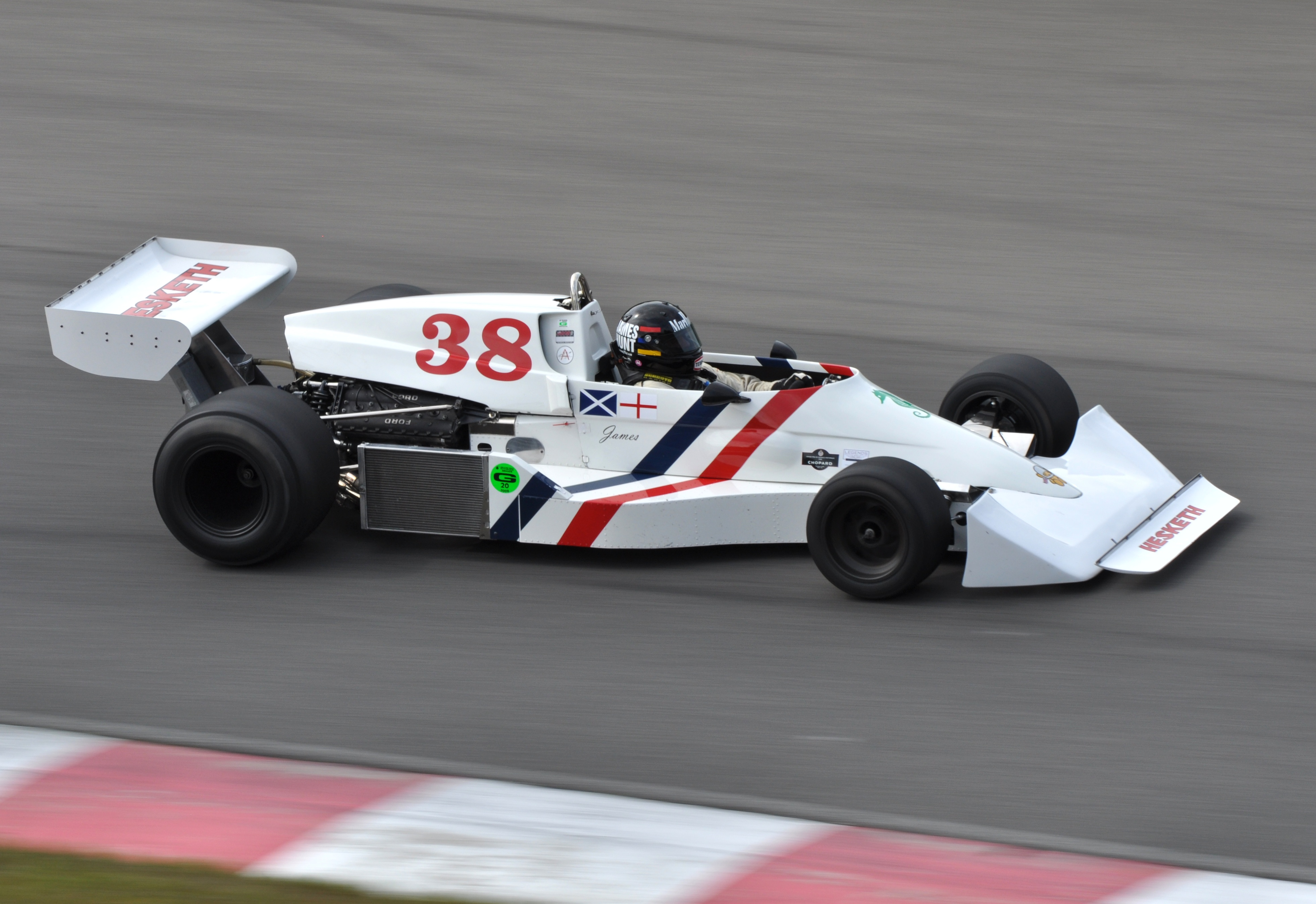 Rick Carlino is appropriately attired as he hustles his ex-James Hunt Hesketh 308C Formula One racing car through The Esses at Mont-Tremblant, during the 2010 Legends of Motorsport.